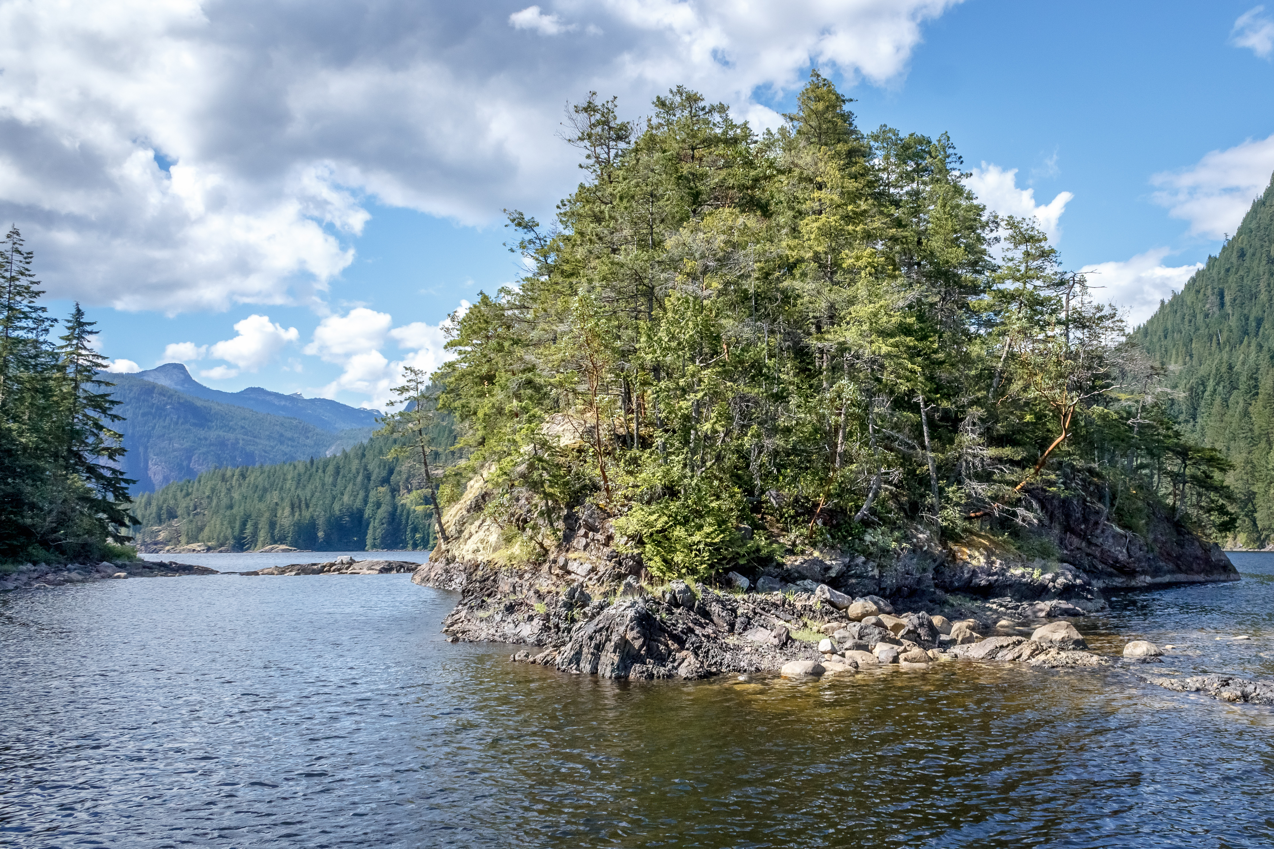 Harmony Islands Marine Park in Hotham Sound, British Columbia This photo was taken in a protected area in Canada, Wikidata item Harmony Islands Marine Provincial Park (Q5659564)